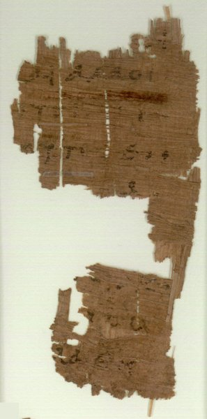 Papyrus 109